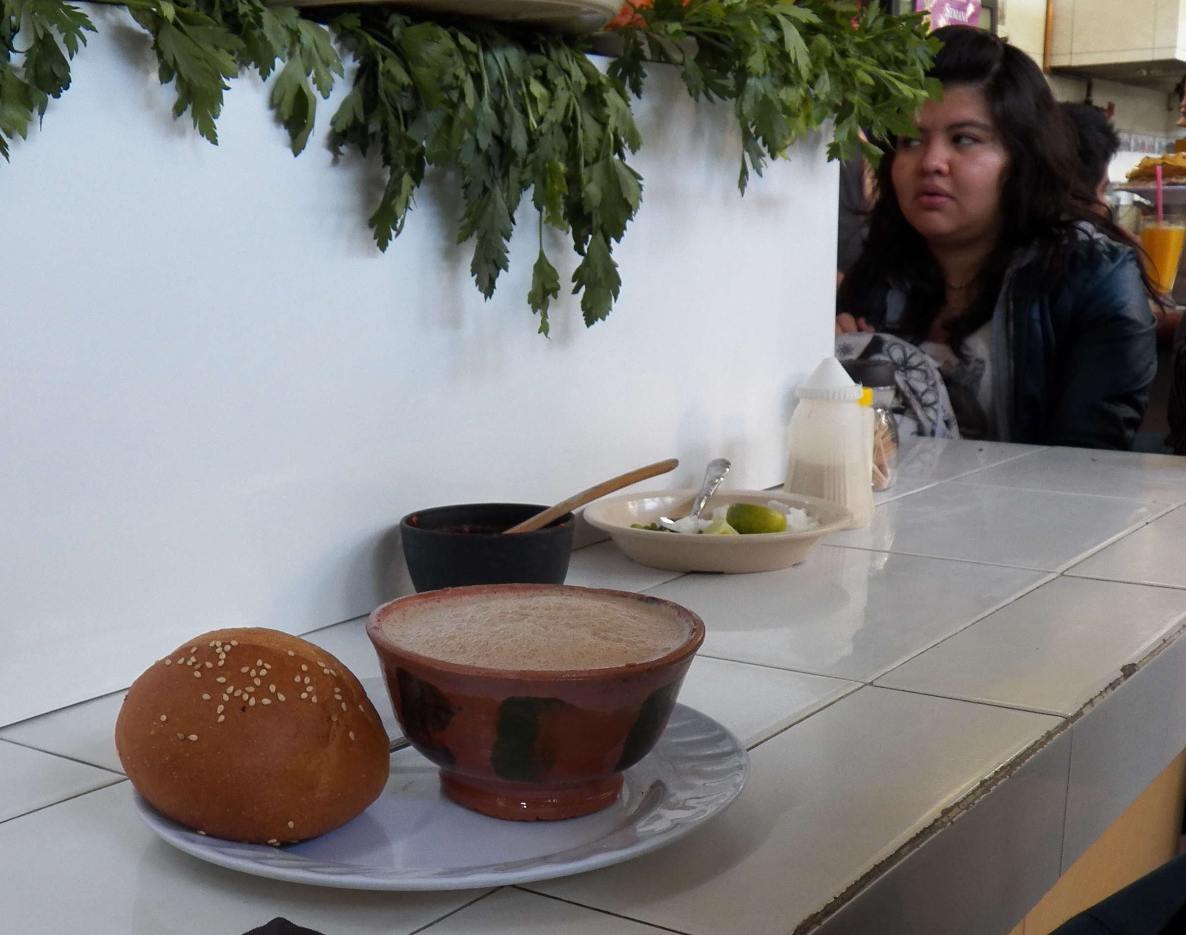 Chocolate milk with bread, Oaxaca, Mexico